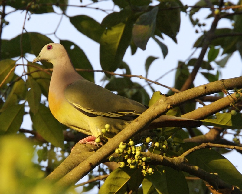 Pink-necked Green-Pigeon (Treron vernans) male